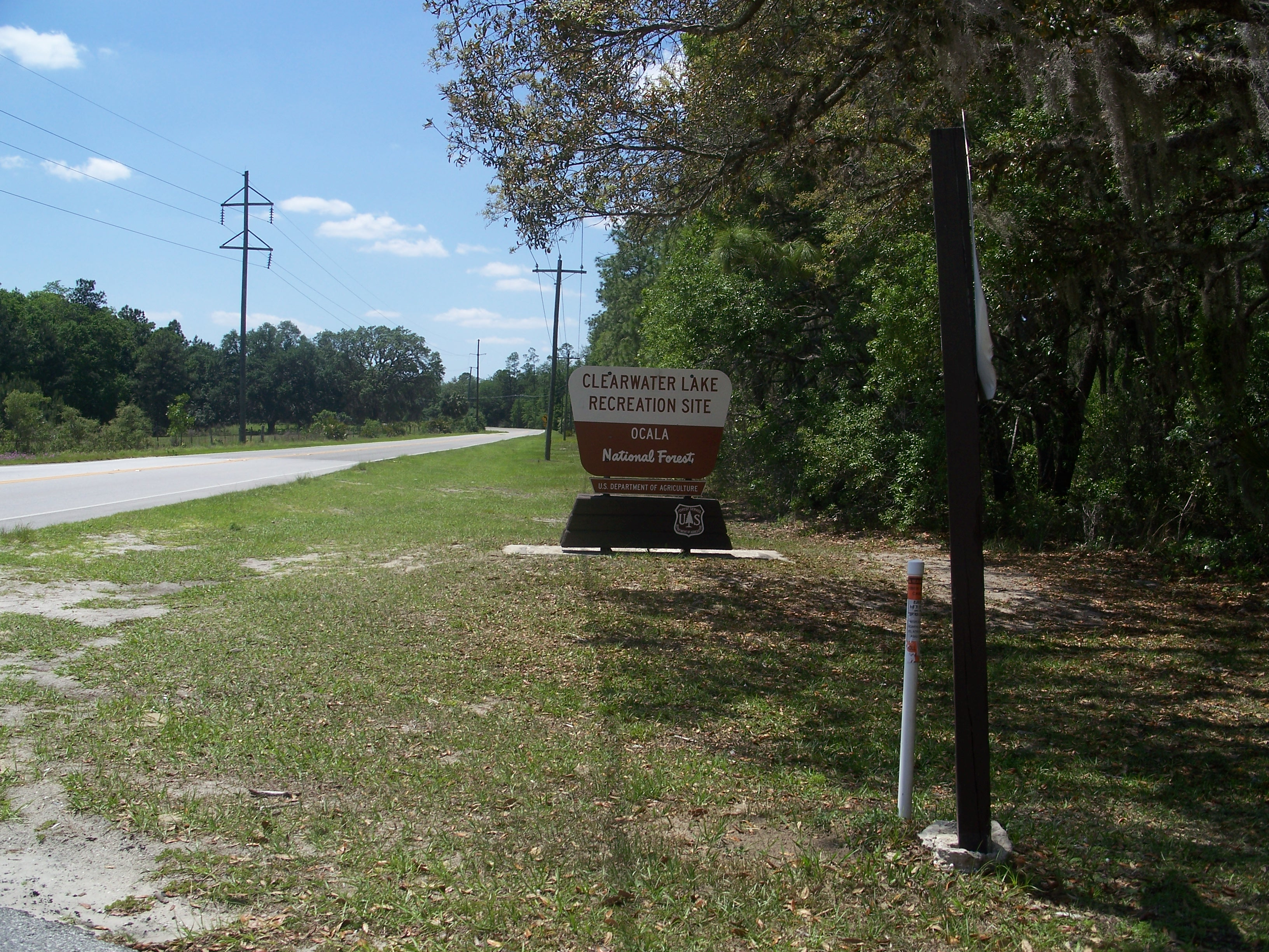 Ocala National Forest: Clearwater Lake Recreation Site sign on CR 42